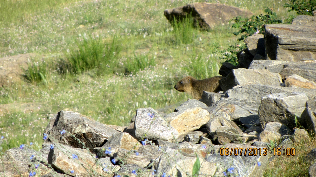 A marmot id locally called a 'phey'.